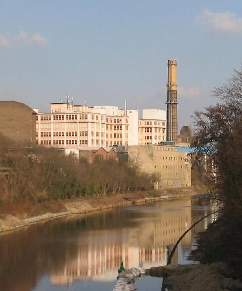 Listed former factorie Sarotti between the Teilestraße and the Teltowkanal in Berlin-Tempelhof. Built between 1911 and 1913 by the architects Oscar Müller and Hermann Dernburg; 1922/23 by Bruno Buch.